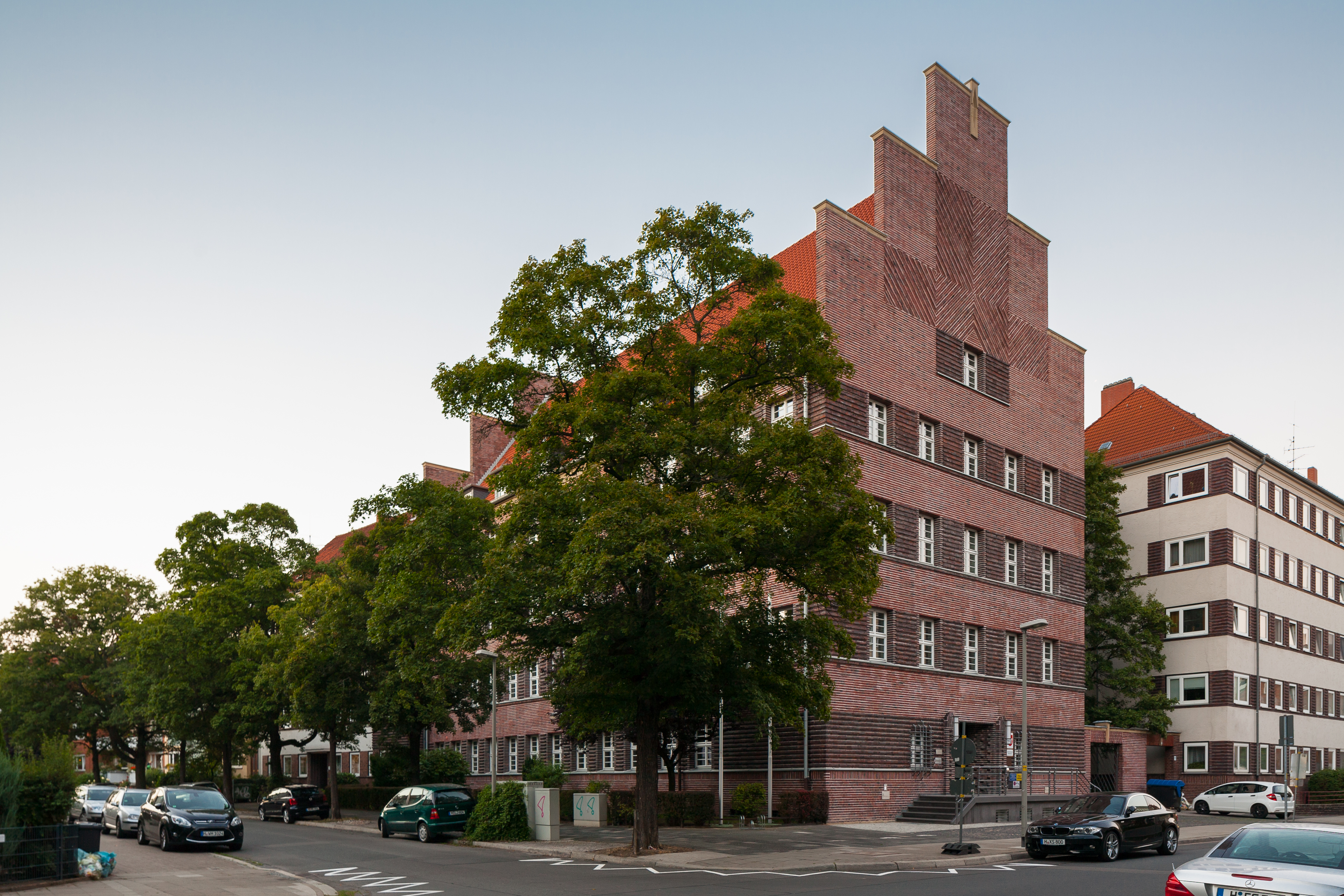 Former Labor court of the state Lower Saxony located in the Siemensstrasse 10, Hanover, Germany.